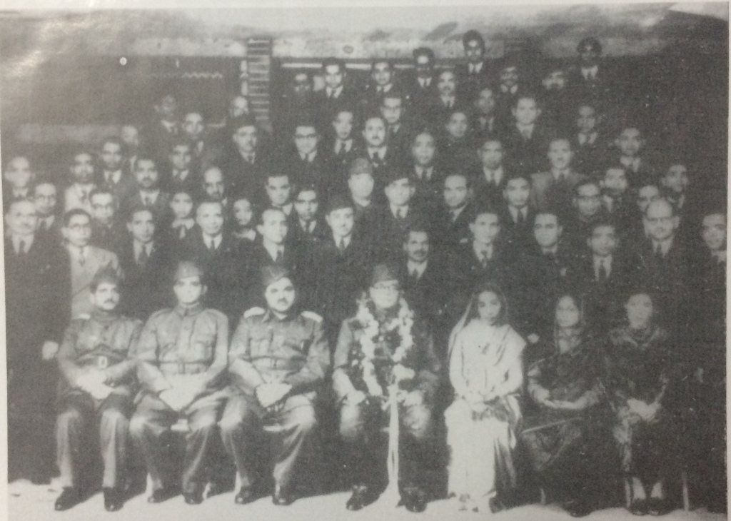 Hariprabha Takeda is second from the right, front row. The central figure in the front row, is of course Subhash Chandra Bose.